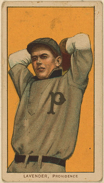 Jimmy Lavender, Providence, Tobacco Card